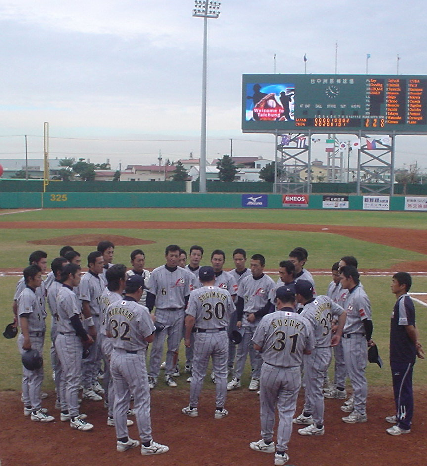 Japanese baseball team meeting after their loss to Cuba at the 2006 Intercontinental Cup in Taichung, Taiwan on November 14, 2006 Photo taken on November 14, 2006.